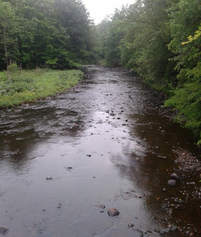 Sprite Creek upstream of Vorhees Road. Taken July 2019.